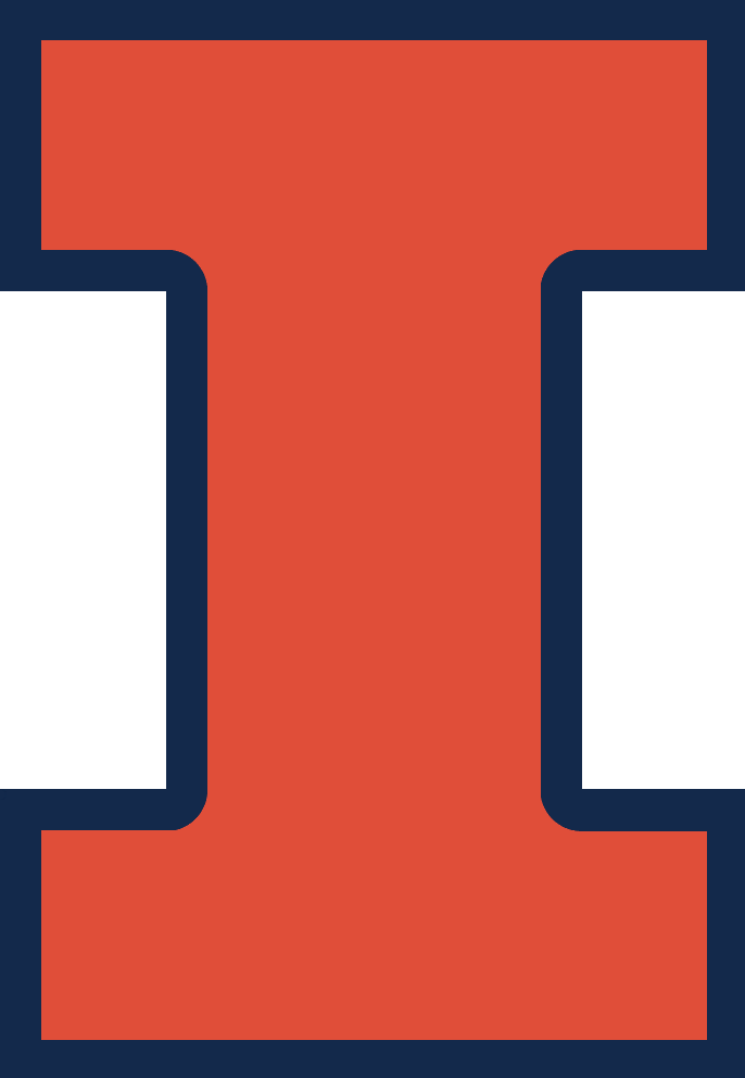 The Block I logo for the University of Illinois athletics program. Source =